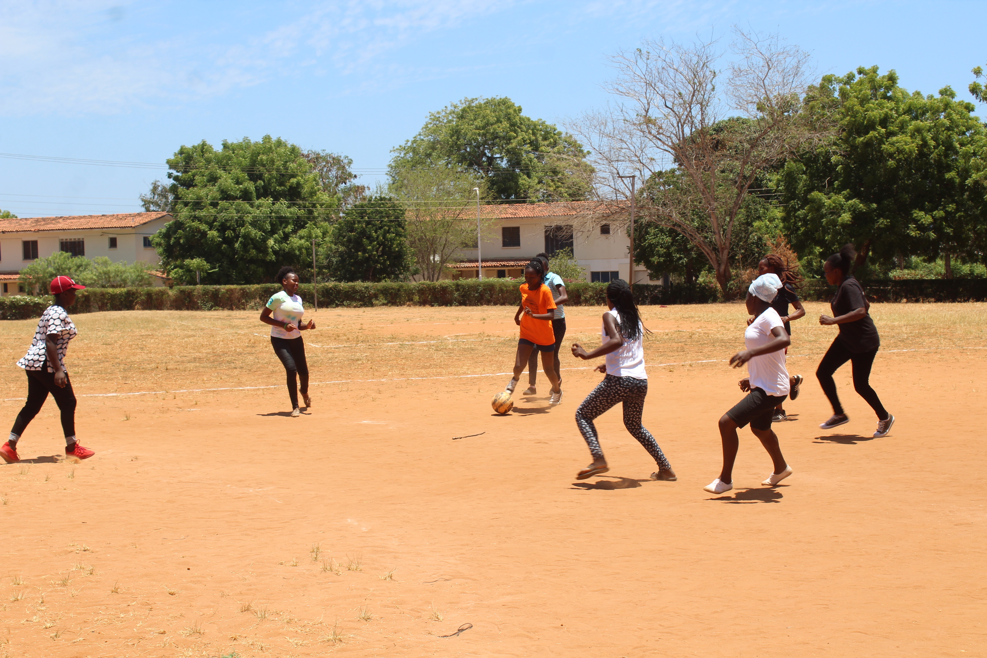 Ladies football in Kilifi county Kenya. This is an image with the theme "Play" from: Kenya